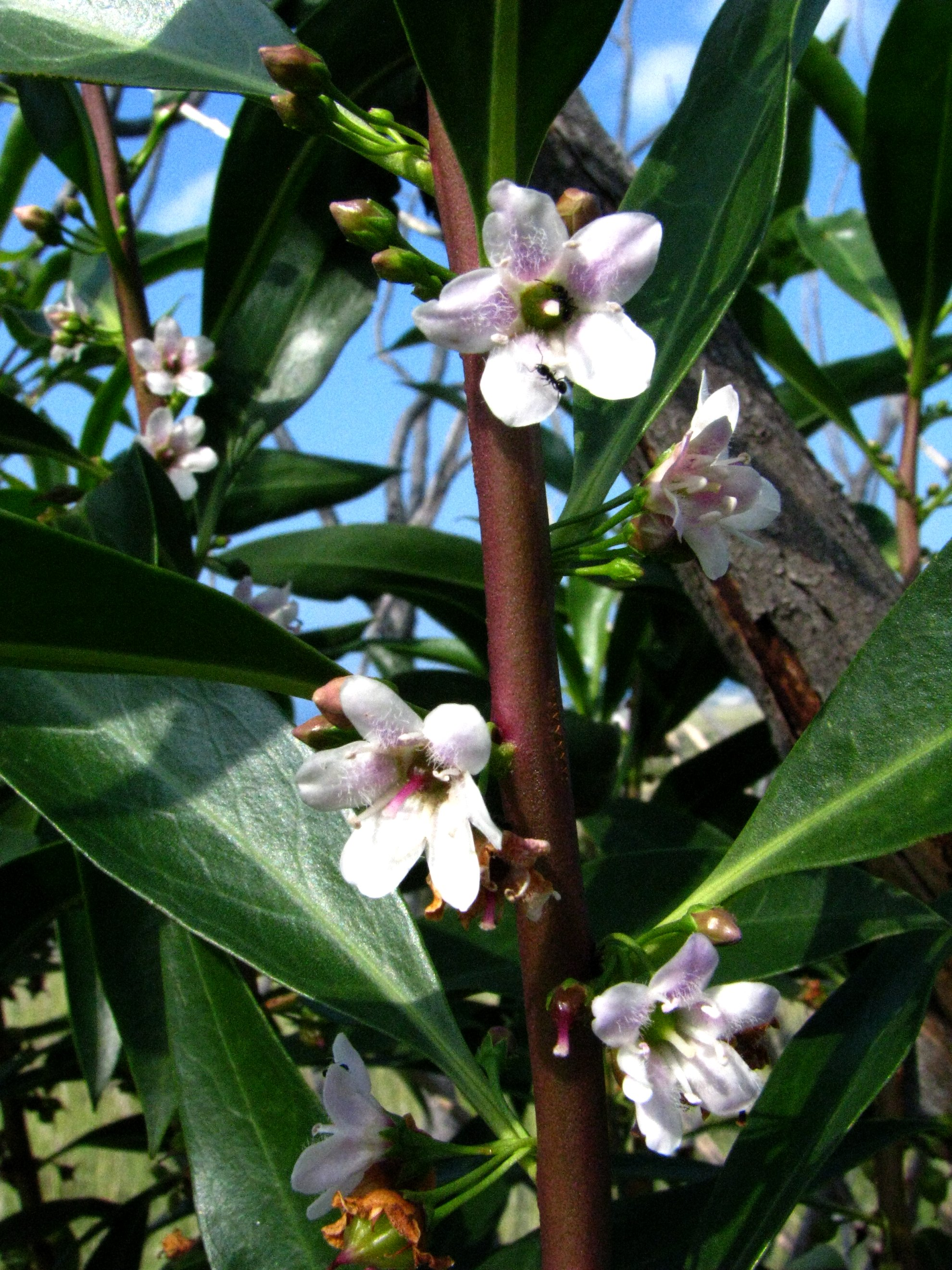 Naio or Bastard sandalwood Myoporaceae Endemic to the Hawaiian Islands Kaloko, Hawaiʻi Island Flowers are described as smelling like "spicy sandalwood" or like honey. The wood of naio has a faint sandalwood fragrance. Read why it has acquired the name "Bastard sandalwood" at (See "The Sandalwood Trade Story")